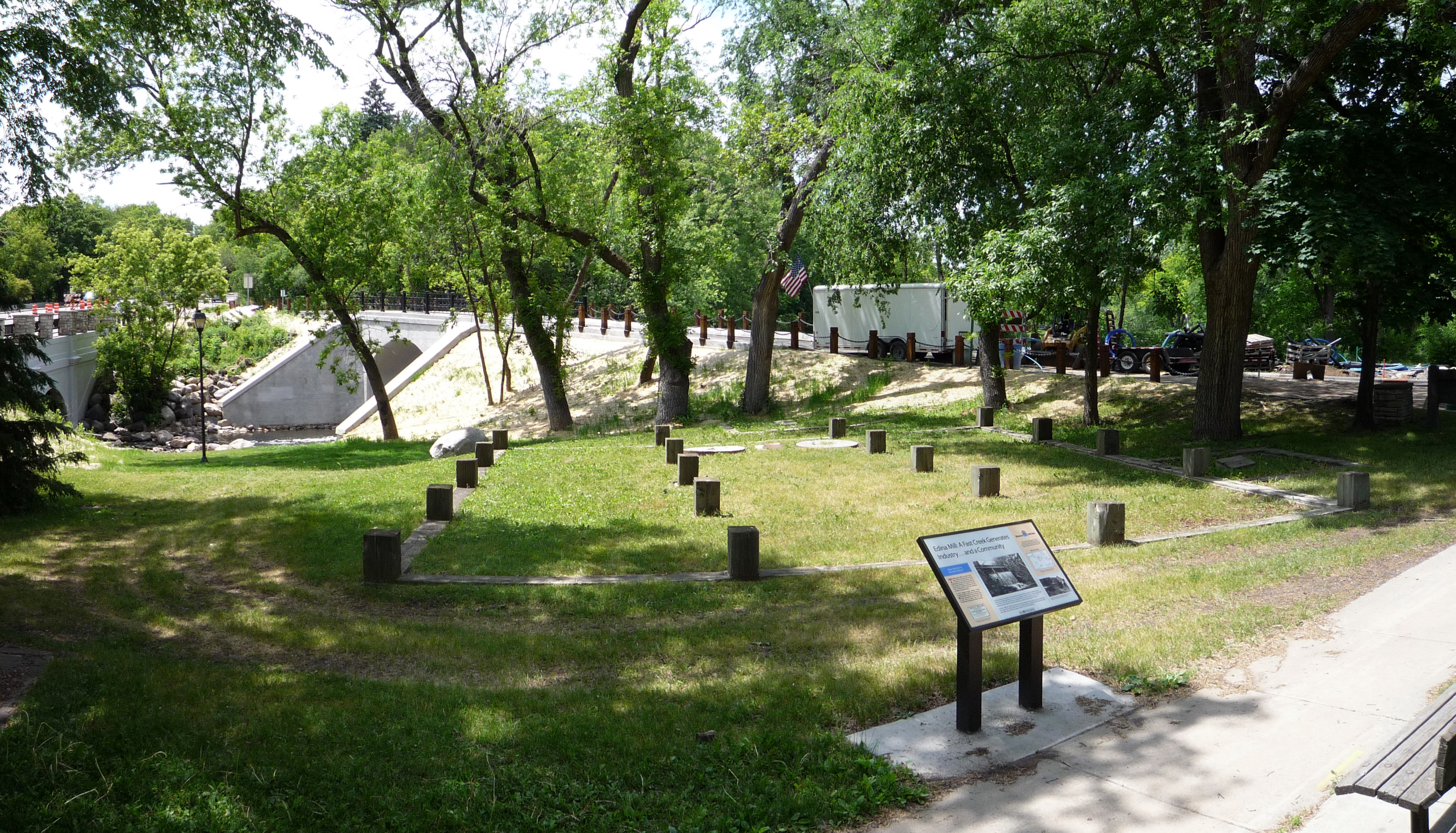 The ruins of the Edina Mill sitting next to Minnehaha Creek, Edina, Minnesota, USA.